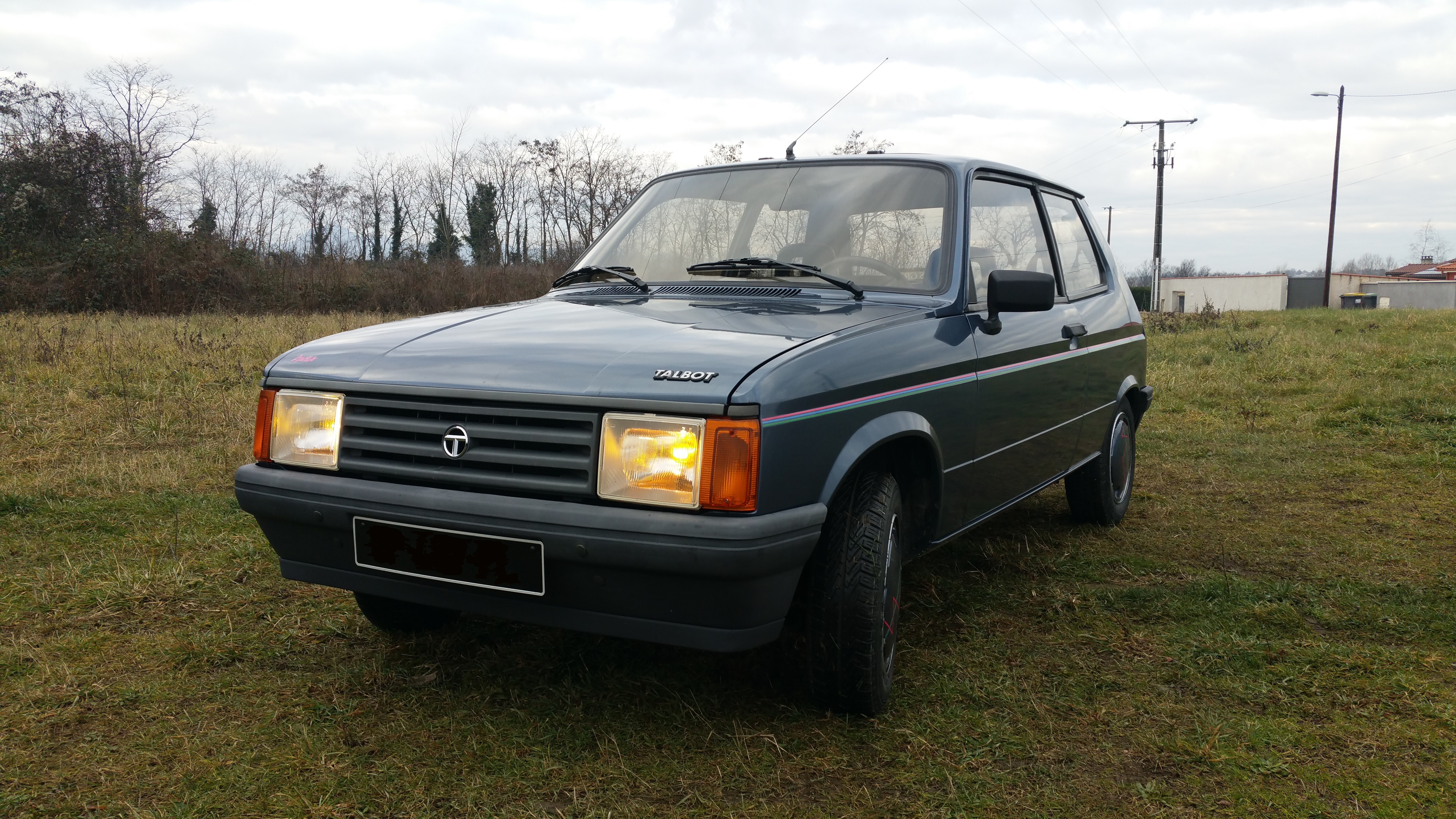 Talbot Samba Bahia, an example of Youngtimer.